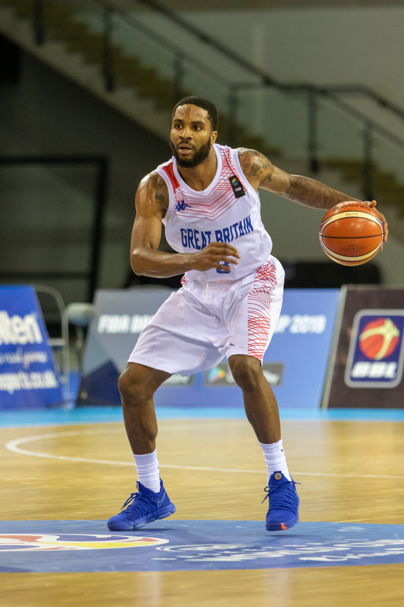 Tarik Phillip playing for the British national team against Estonia in the European 2019 FIBA Basketball World Cup qualification round